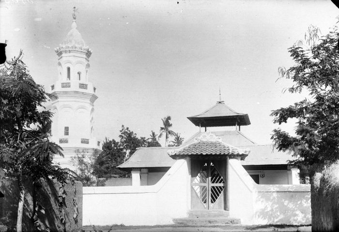 Mosque at Pagutan